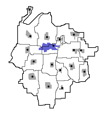 The location of Vechelde, municipality of Vechelde, in Lower Saxony, Germany.